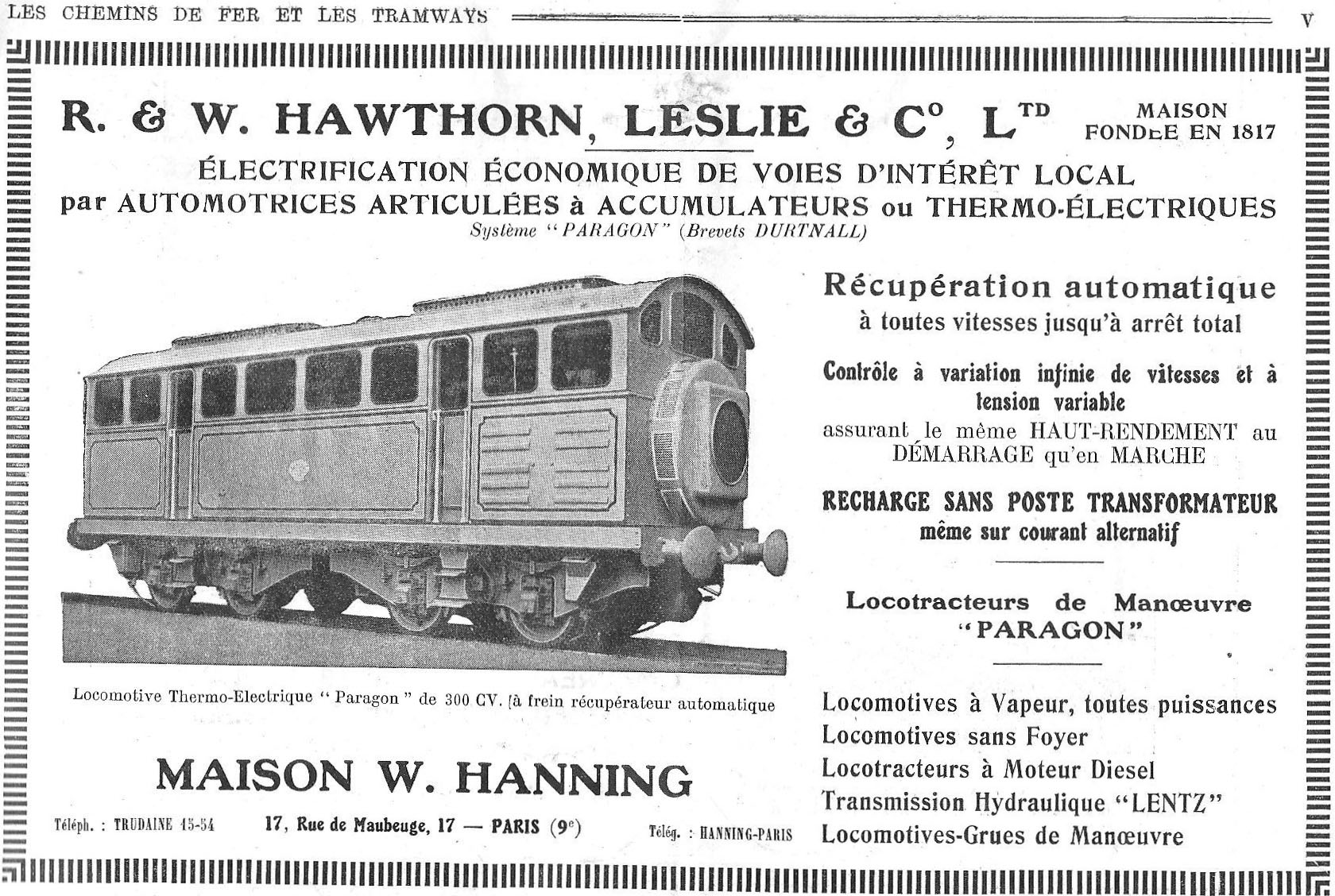 Advertisement by the French agent Maison W. Hanning for a thermoelectric vehicle of R. & W. Hawthorn, Leslie & Co., Ltd.